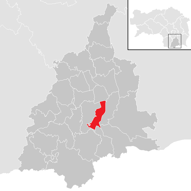 District Leibnitz